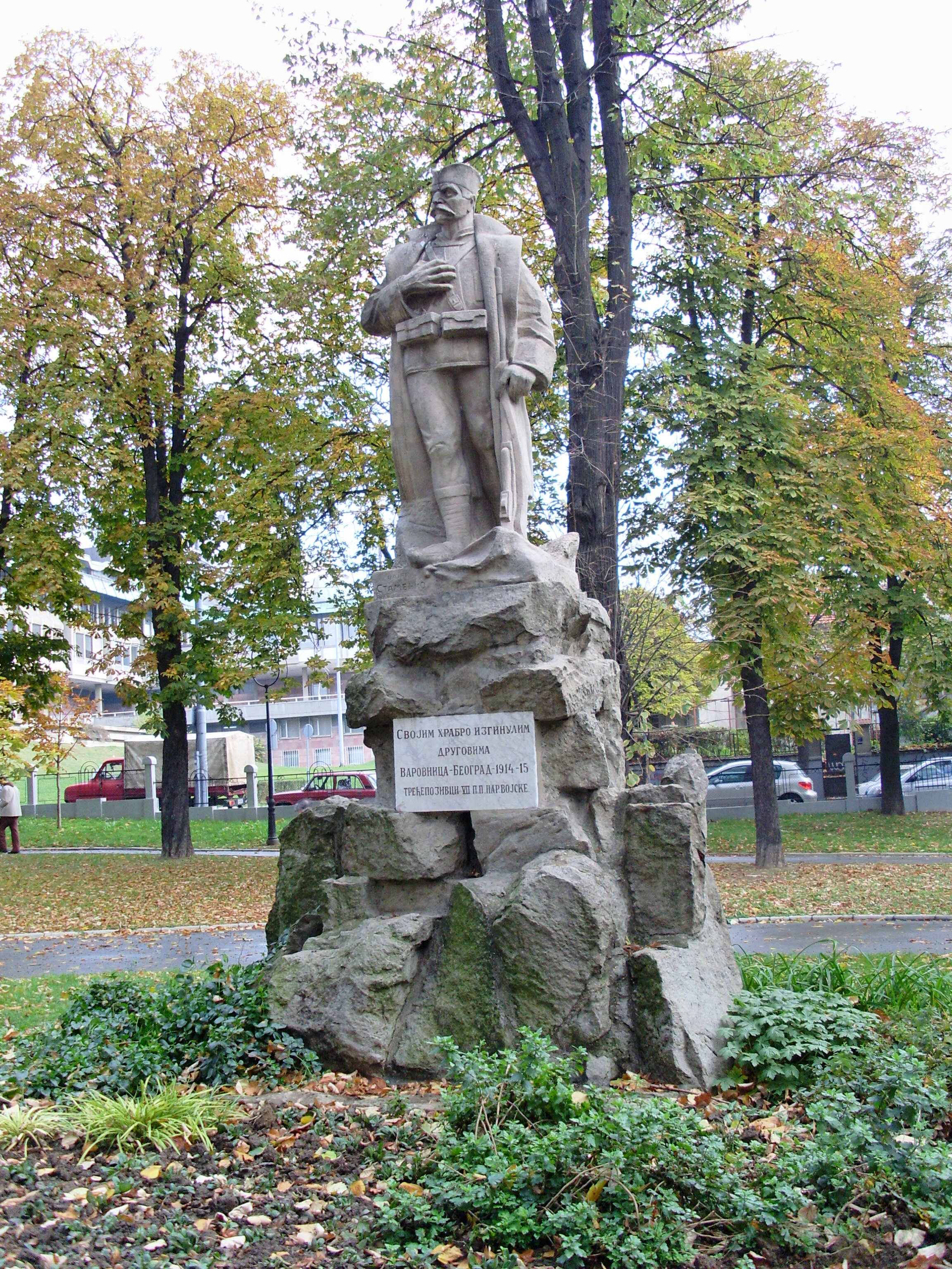 Karadordev park, Belgrade